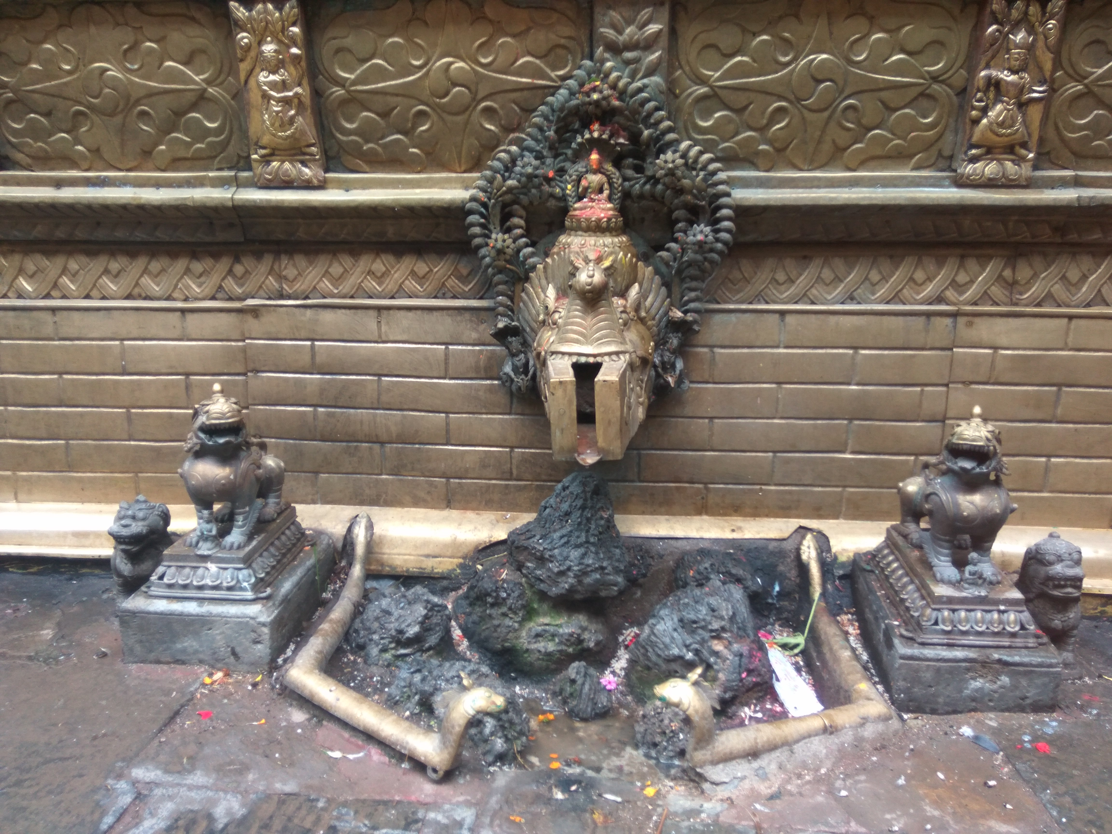 Hiti at Golden Temple Premises